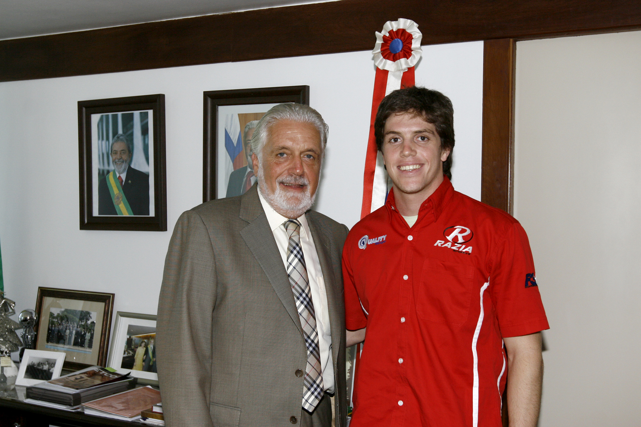 Brazilian racing driver Luiz Razia (right) meets Jaques Wagner, the governor of Bahia state in January, 2010.